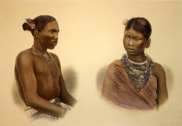 From Dalton's "Descriptive Ethnology of Bengal," 1872; engravings with modern hand coloring: "Bendkar: Male and Female"* "Bhotia: Man and Woman"* "Bhuiya: Male and Female"* "Fakial and Miri"* "Garos"* "Ho: Girl and Woman"* "Juang"* "Kachari"* "Kuki"* "Lepcha: Man and Woman"* (shown above) "Limbo"* "Miri: Man and Woman"* "Mug and Ho"* "Mundas"* "Munipuri: Married Woman and Young Girl"* "Namsang Naga Muttuck"* "Oraons"*